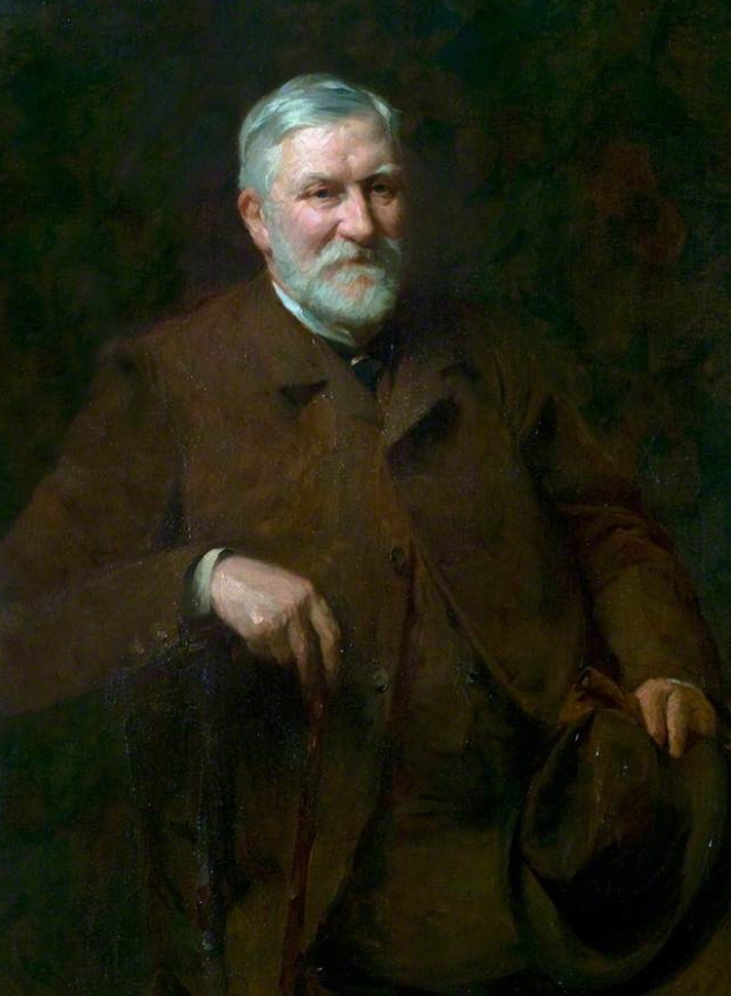 Alexander Samuel Leslie-Melville, owner of Branston Hall, Lincolnshire